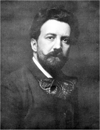 Depicted person: Henry Wood – English conductor